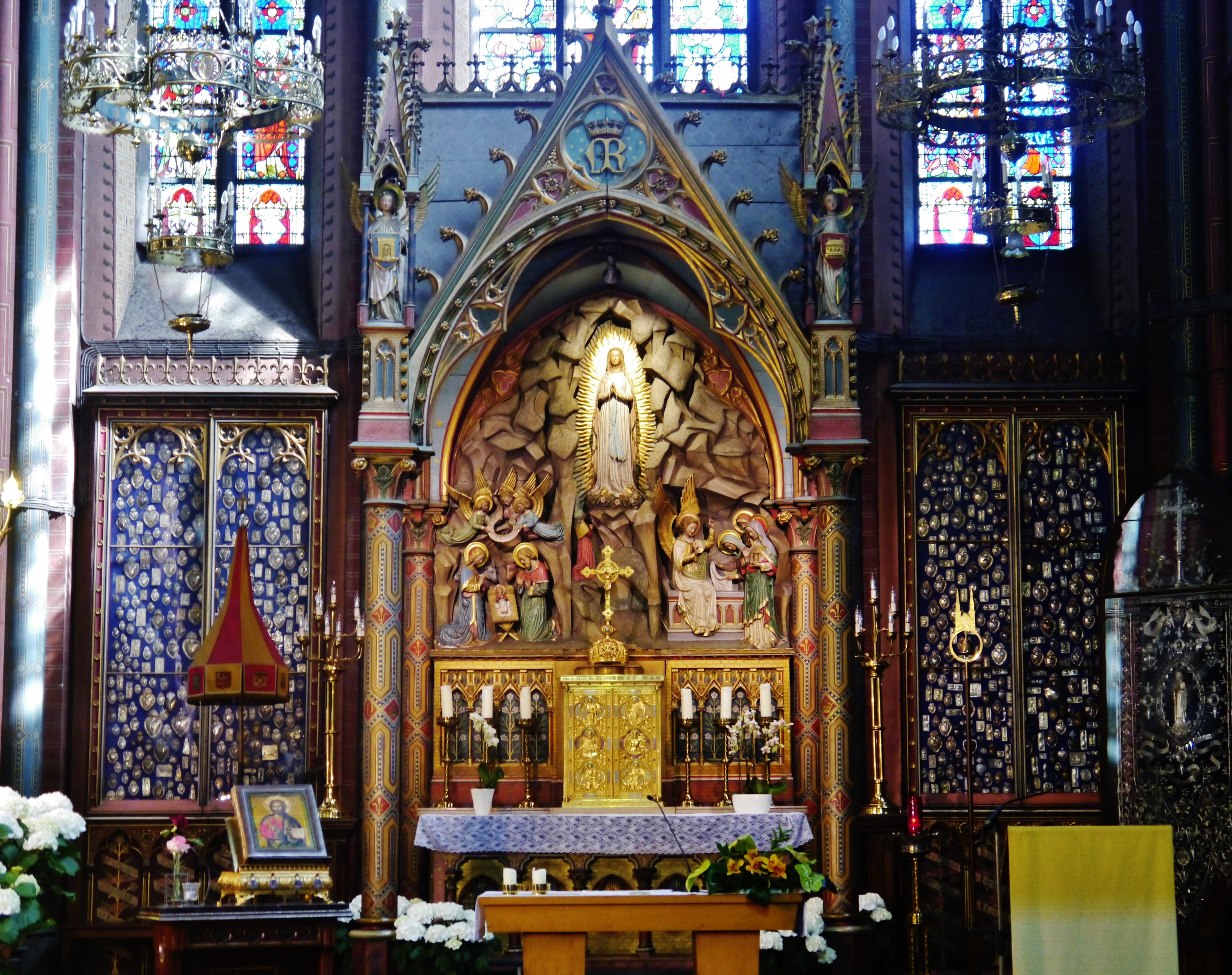 High Altar of the Basilica of Our Lady of Lourdes, Oostakker (City Department of Ghent), Province of East Flanders, Flanders, Belgium